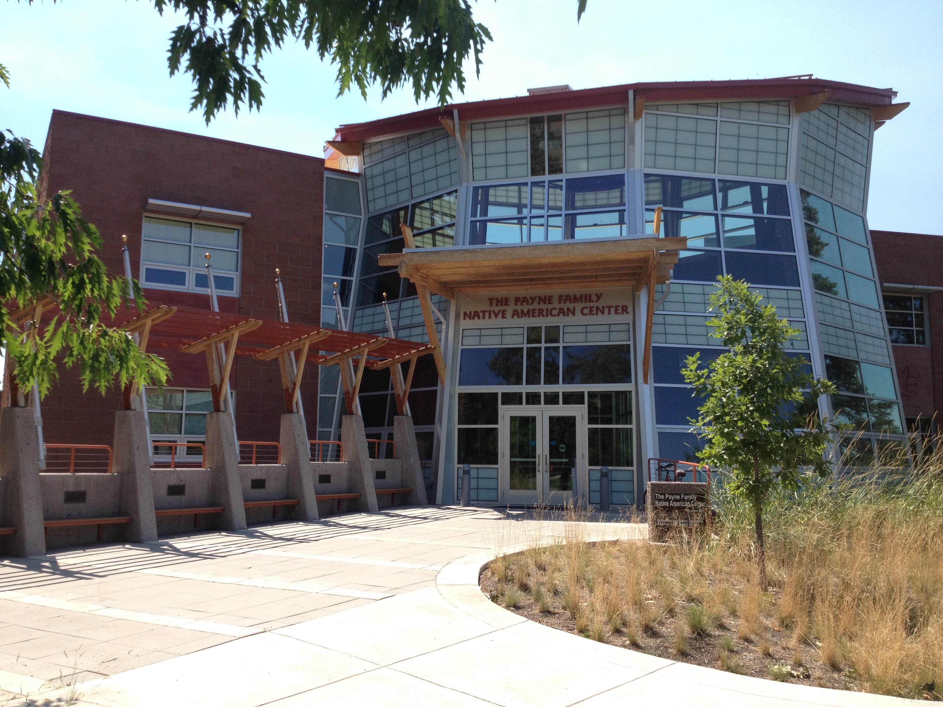 The Payne Family Native American Center on the University of Montana campus in Missoula, Montana, a building which has earned the LEED Platinum Certification. Photographed July 25, 2013.